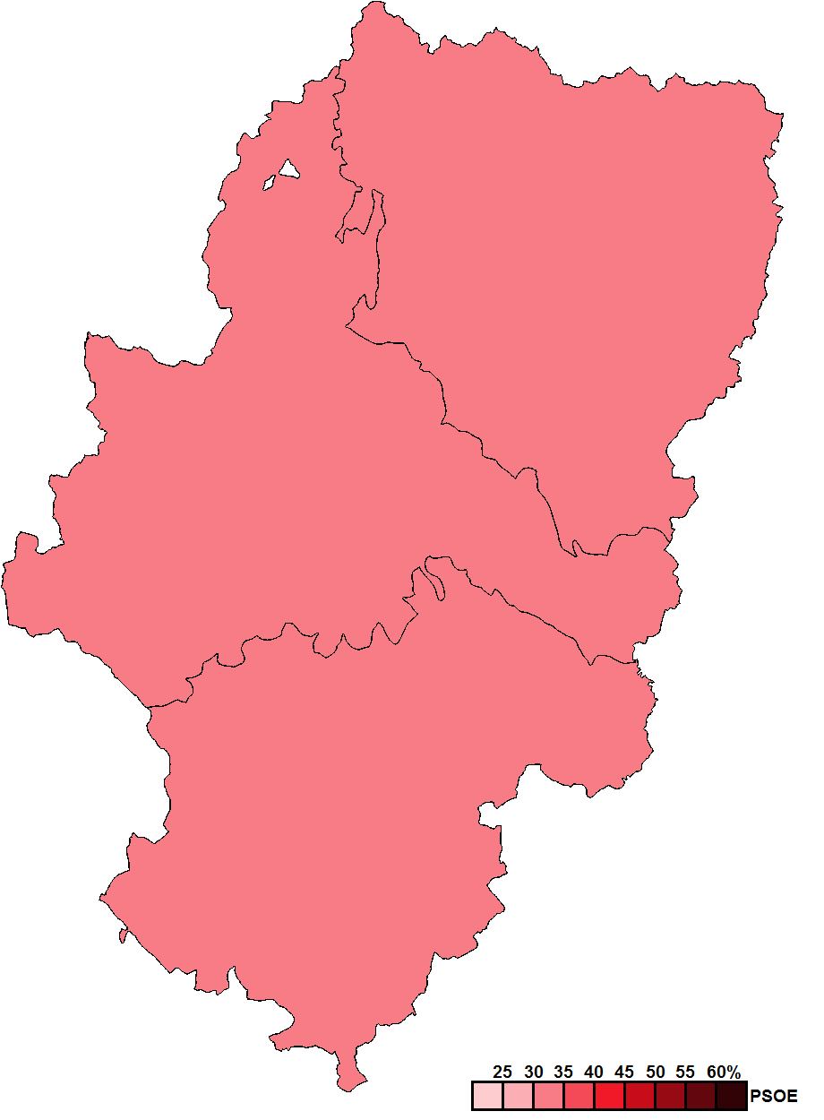 Provincial results for the 2019 Aragonese regional election.